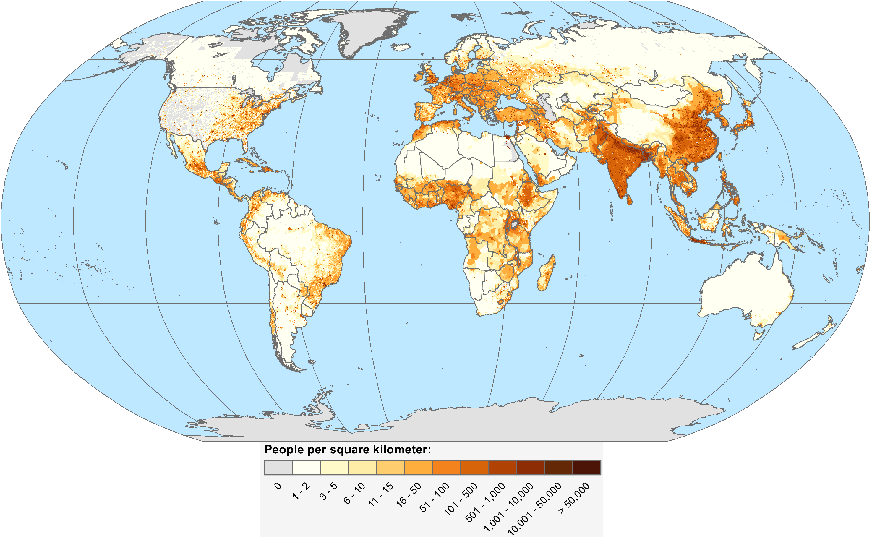 Population density global map 2010, Robinson Projection.